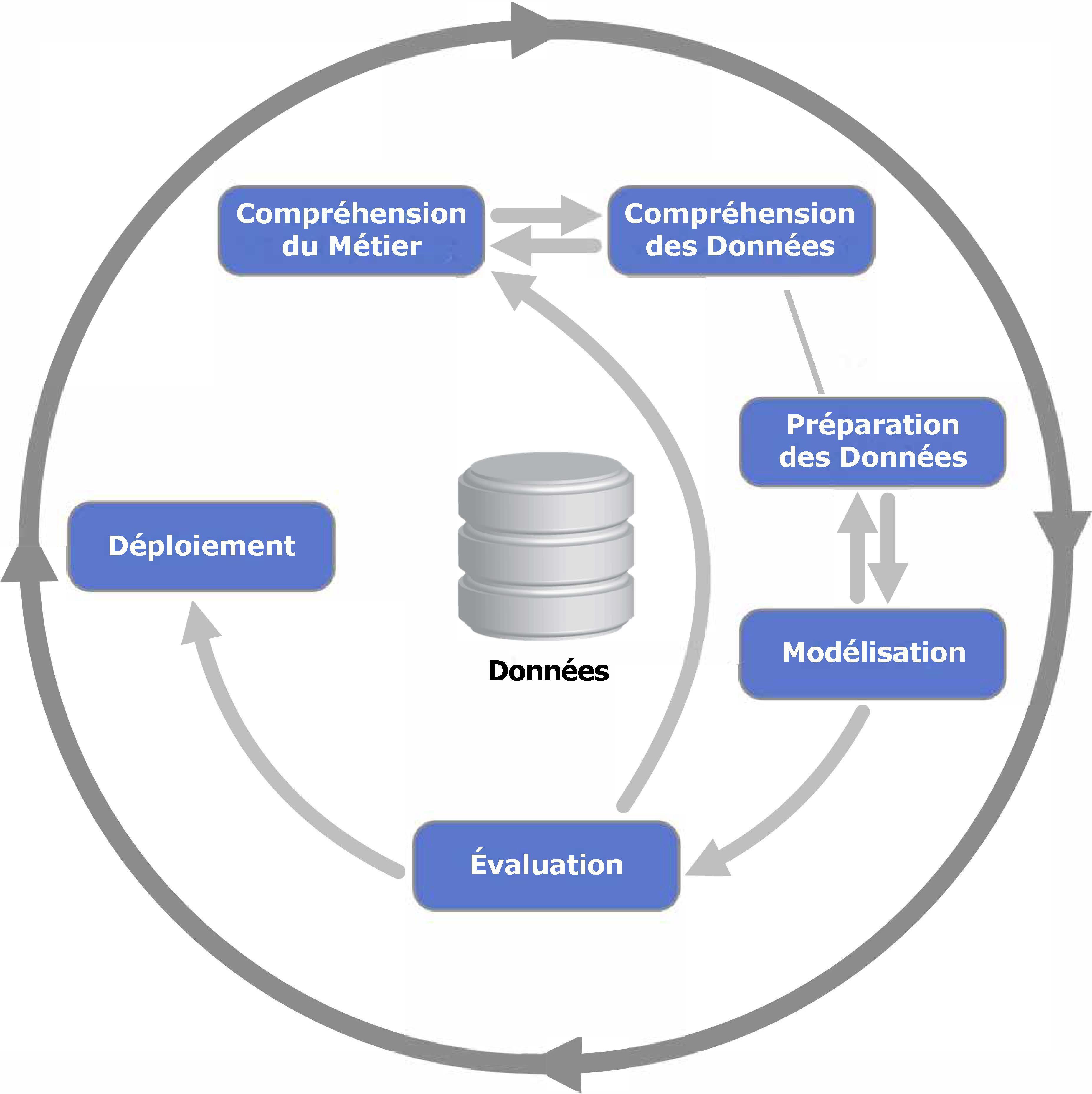 Main phases of the CRISP-DM process in French